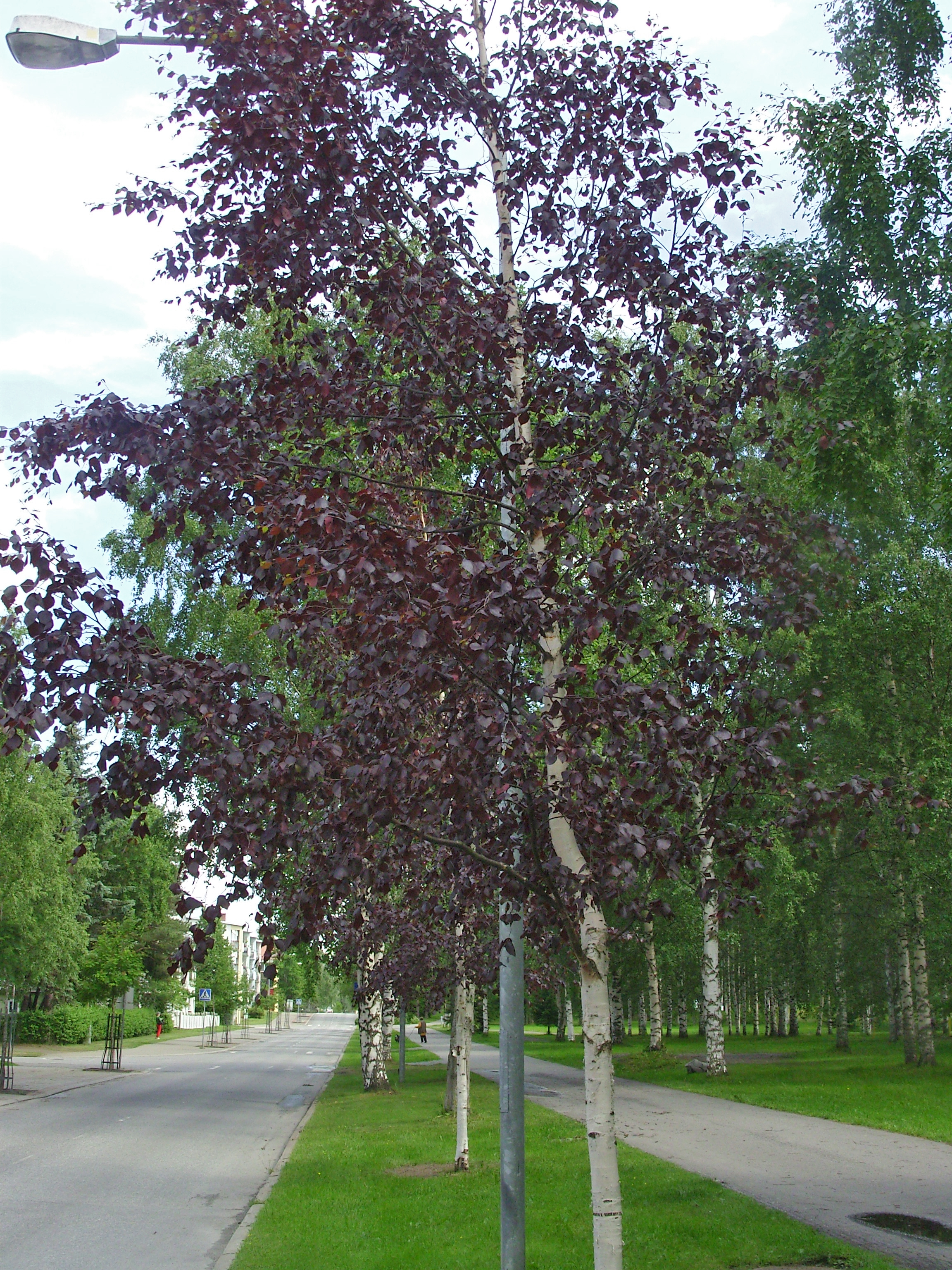 Red birch (Betula_pubescens f. rubra).